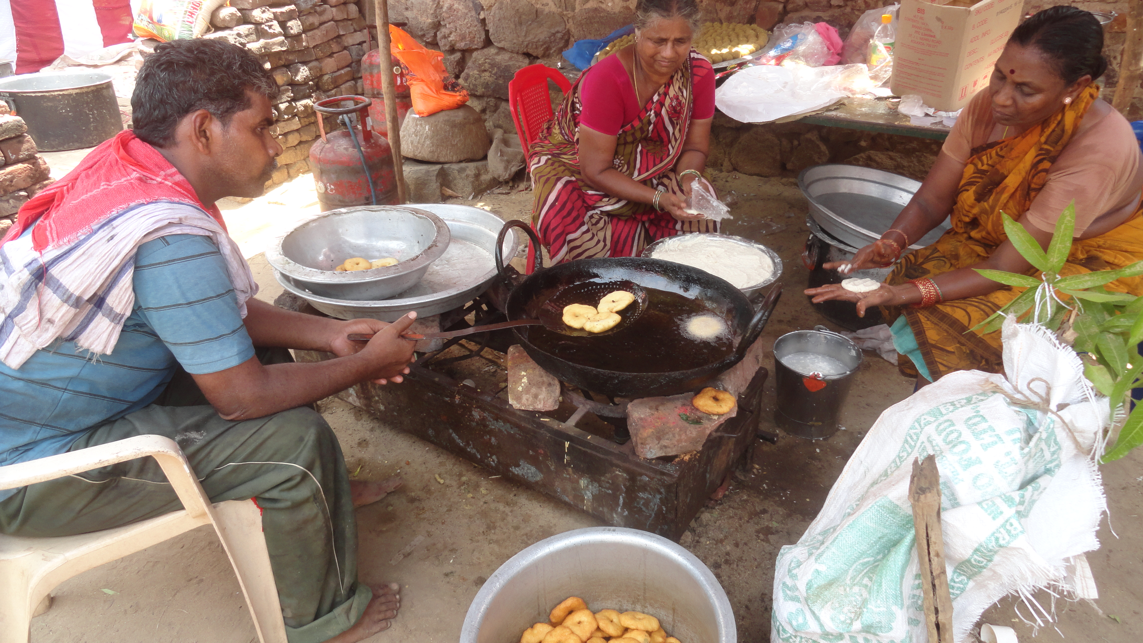 a scene how to prepare vada. (boiling in oil)